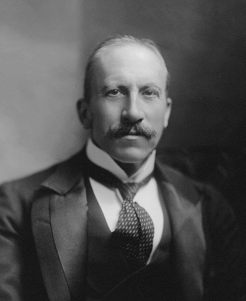 Alfred Milner, 1st Viscount Milner (23 March 1854 – 13 May 1925)